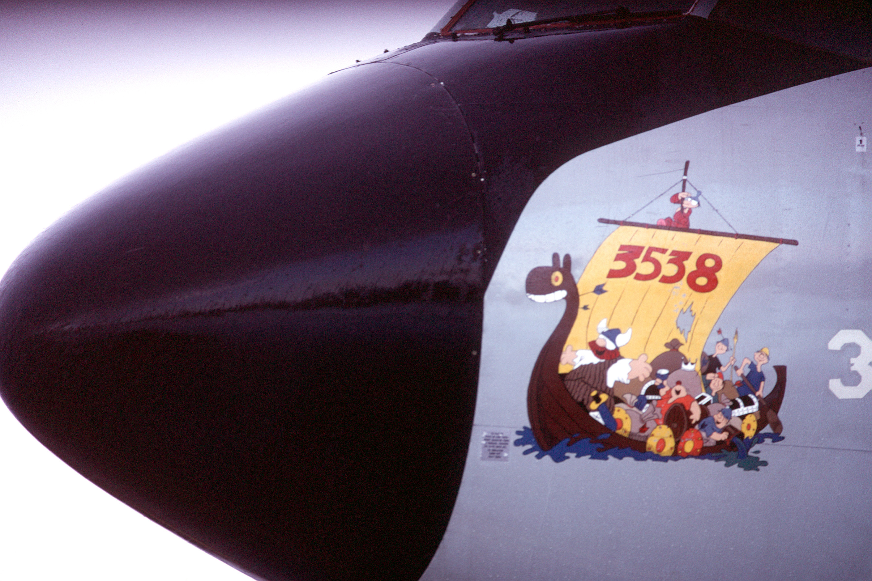 Nose art with comic strip "Hagar the Horrible" in a Viking ship carrying loot decorates a KC-135R Stratotanker aircraft located at Ellsworth Air Force Base, South Dakota.